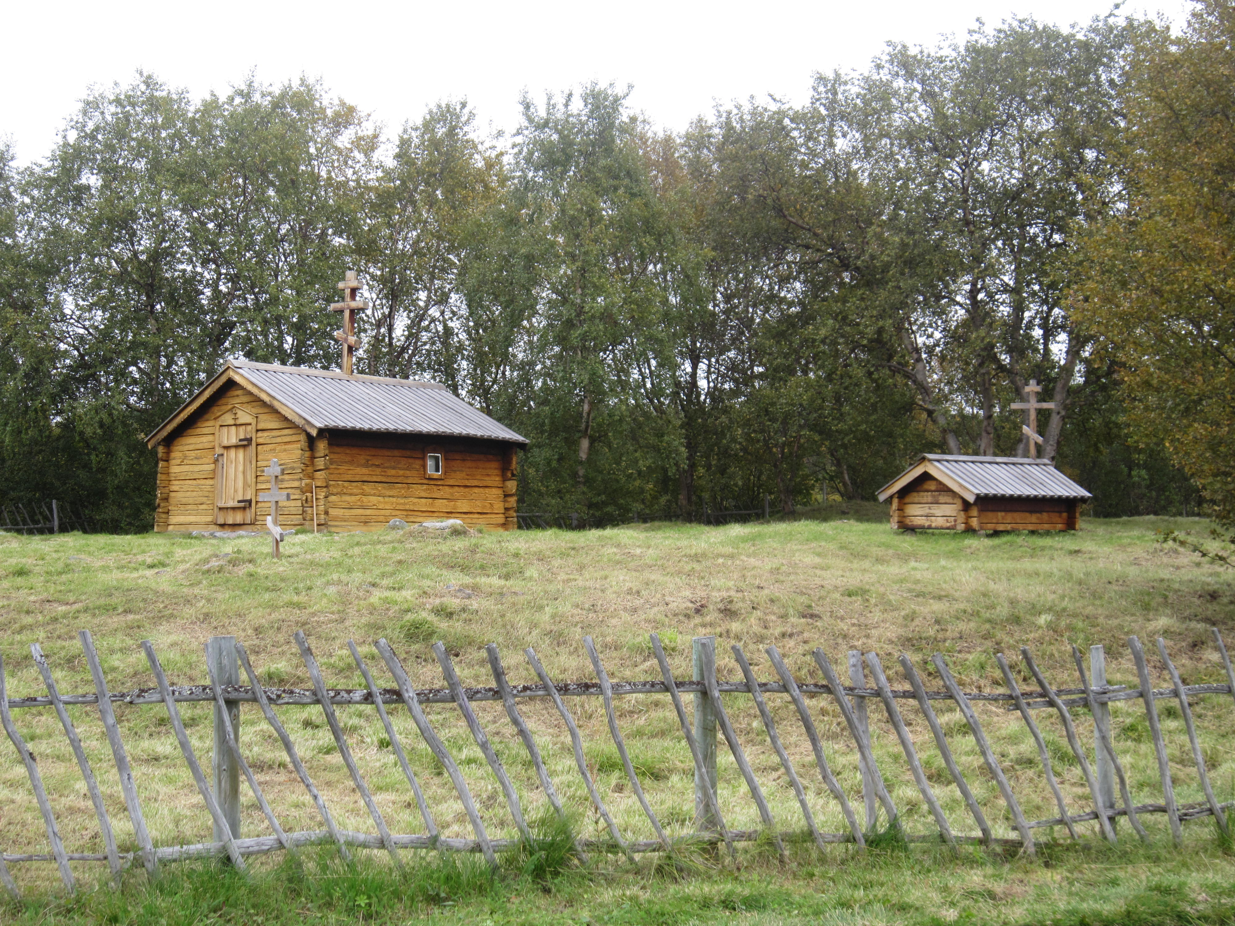 Orthodox St. Georg's Chapel in Neiden/Norway, build 1565